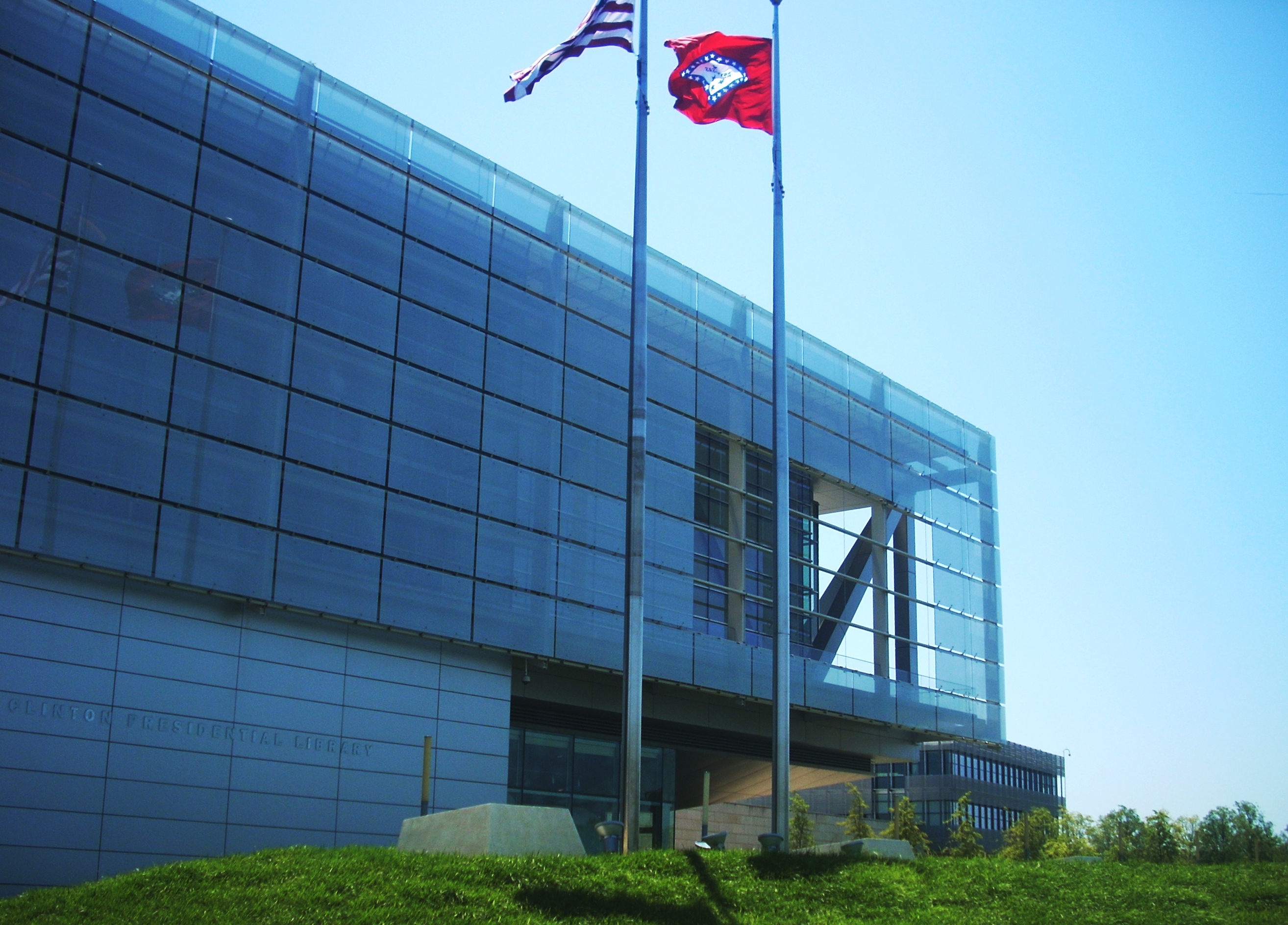 View of the Clinton Presidential Center's main building, Little Rock, AR, USA. Post-processed in Gimp.